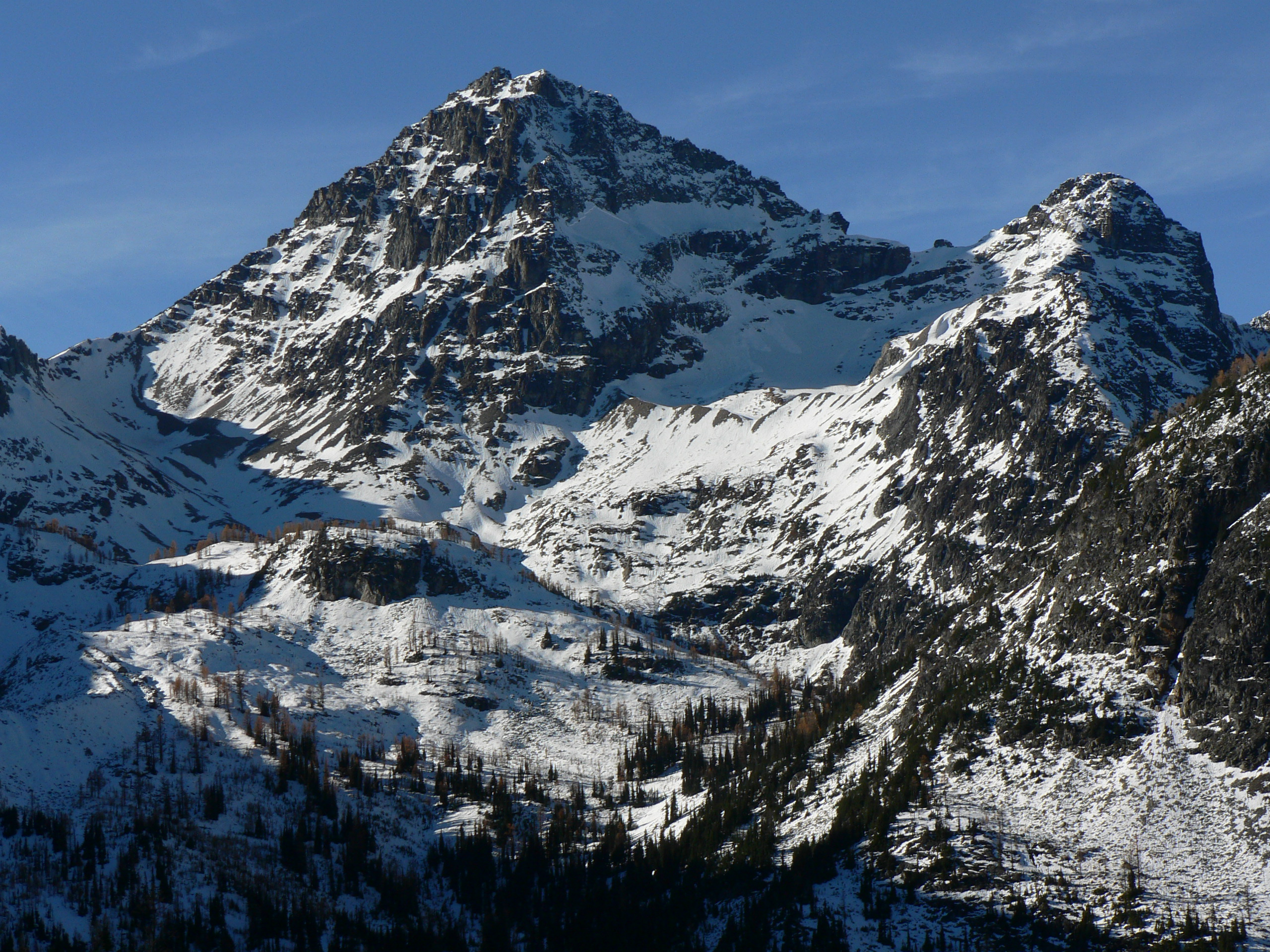 Black Peak (8970 feet, 2734 m), Wing and Lewis Lake basin